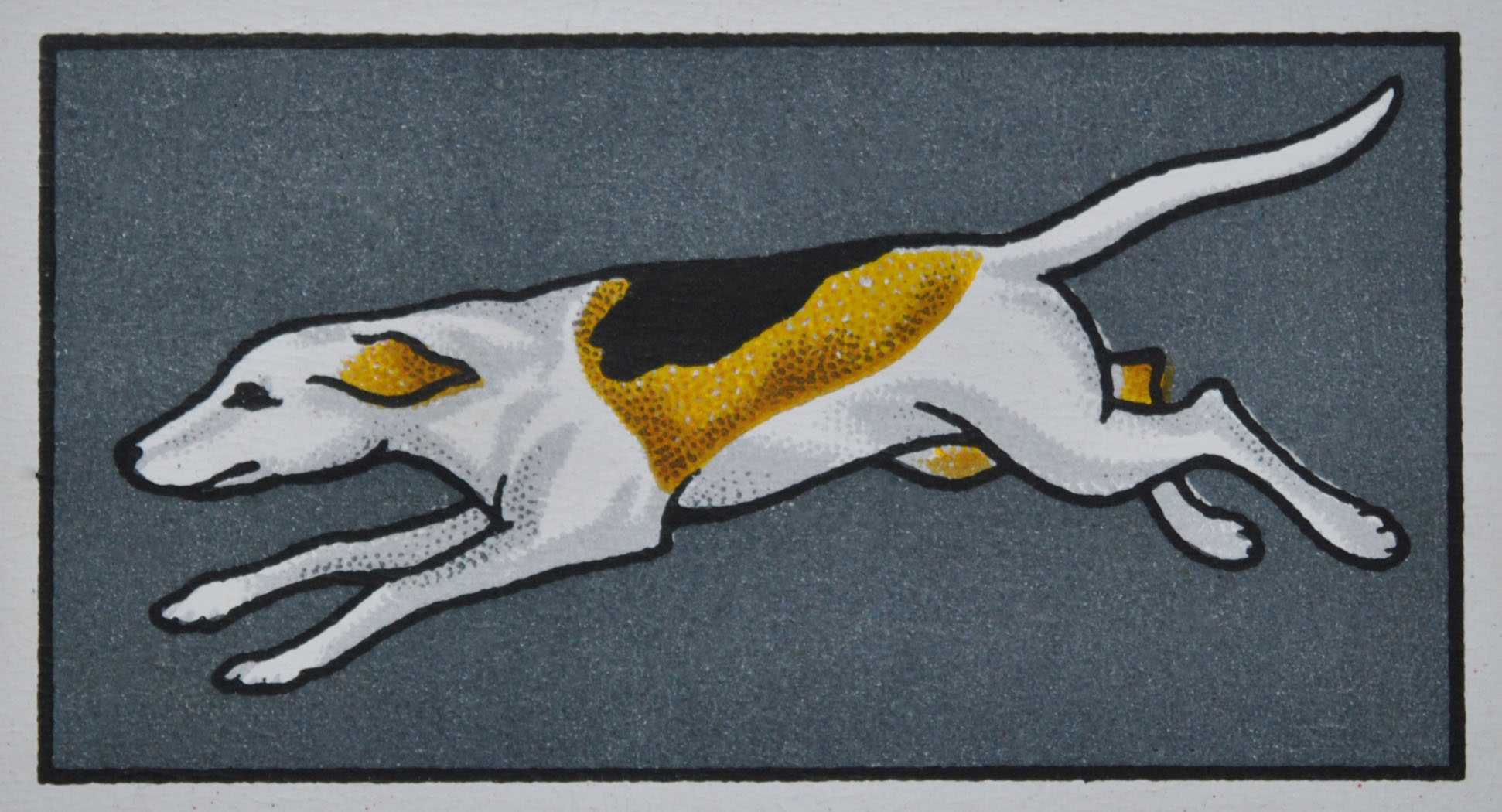 Formation sign for the British XXII Corps in the First World War